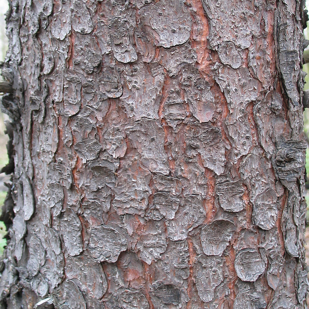 Picea abies bark, Poland, near Wrocław.